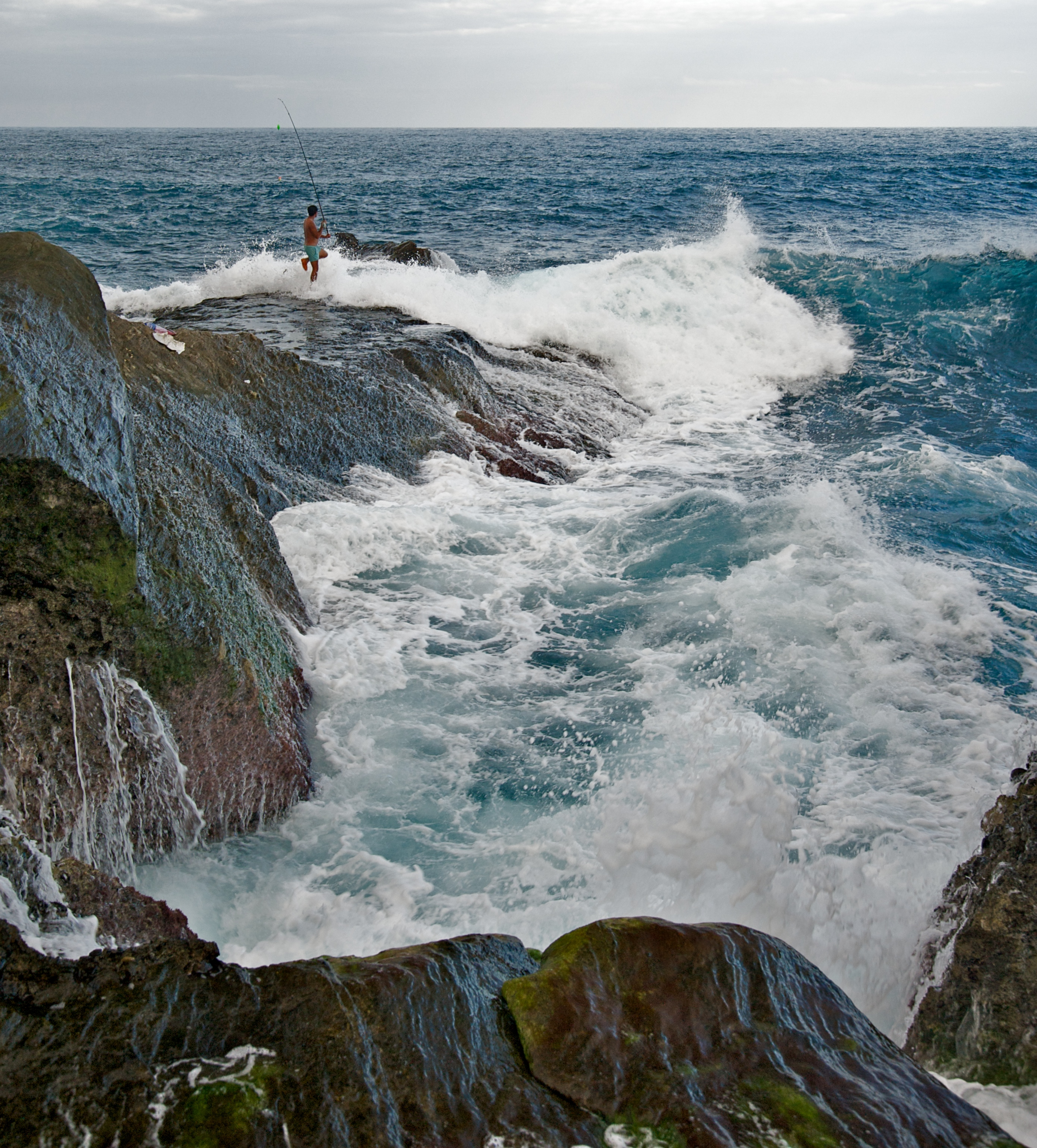 Rock fishing at ShihTiPing (giant stone steps) coastal area in Taiwan